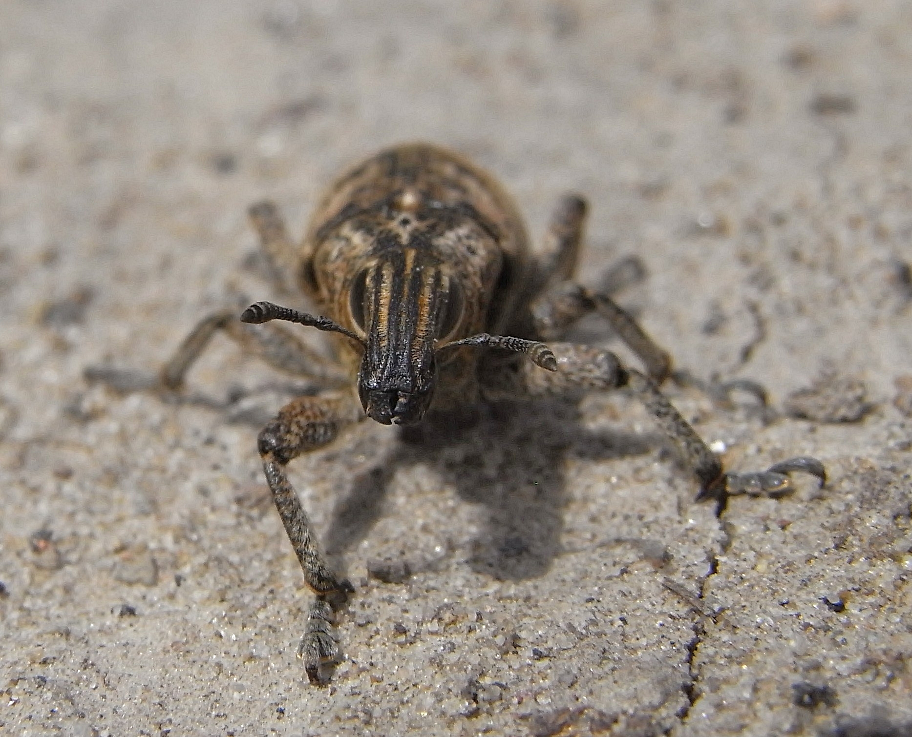 Cleonis pigra from Hungary little west of Mohacs, at 2010-05-14Ricoh R8